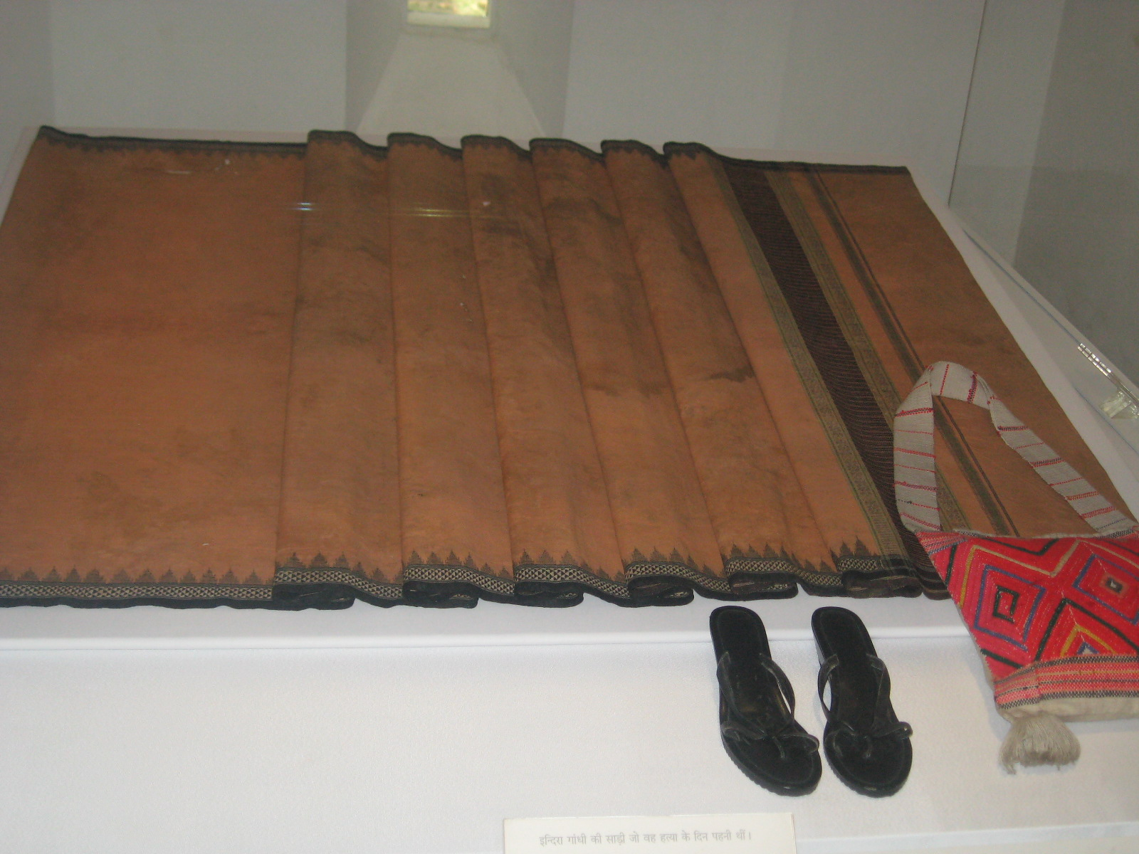 Of the various objects belonging to late Indira Gandhi, former Prime Minister of India. The tan brown Saree has a distinct border, and is most likely a Sambalpuri saree woven in the Sambalpur region of Odisha. The plaque below says "The Saree which she wore on the day of her assassination." Beside it are her handbag and a pair of leather sandals. These objects have been preserved in her memory in the Teen Murti Bhawan at New Delhi.